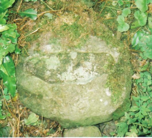 A footprint PSG of an unclothed foot from Chapeltoun, near Stewarton in Ayrshire